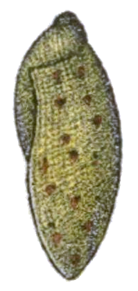 Drawing of lateral view of the shell of Amphibulima browni.